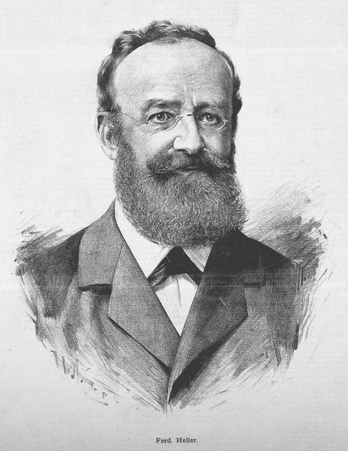 Portrait of Ferdinand Heller (1824 - 1912), Czech composer